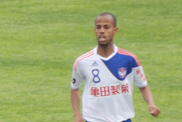 This file has been extracted from another file: Michael Jefferson Nascimento.jpg